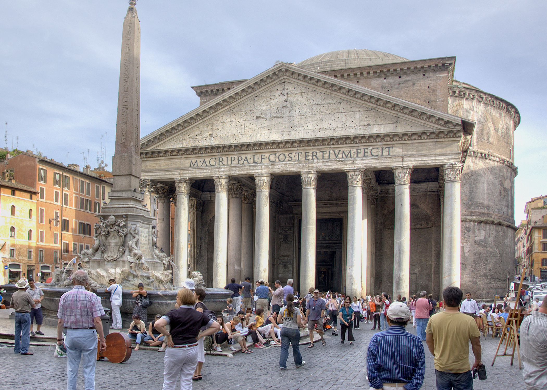 The Pantheon in Rome, Italy